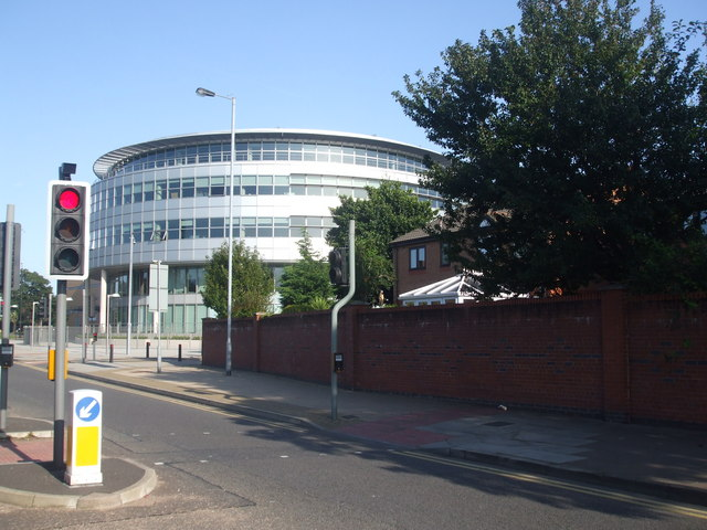 Building off Pembroke Road This building is Redgrave Court, the new HQ of the Health and Safety Executive in Merton Road, Bootle.